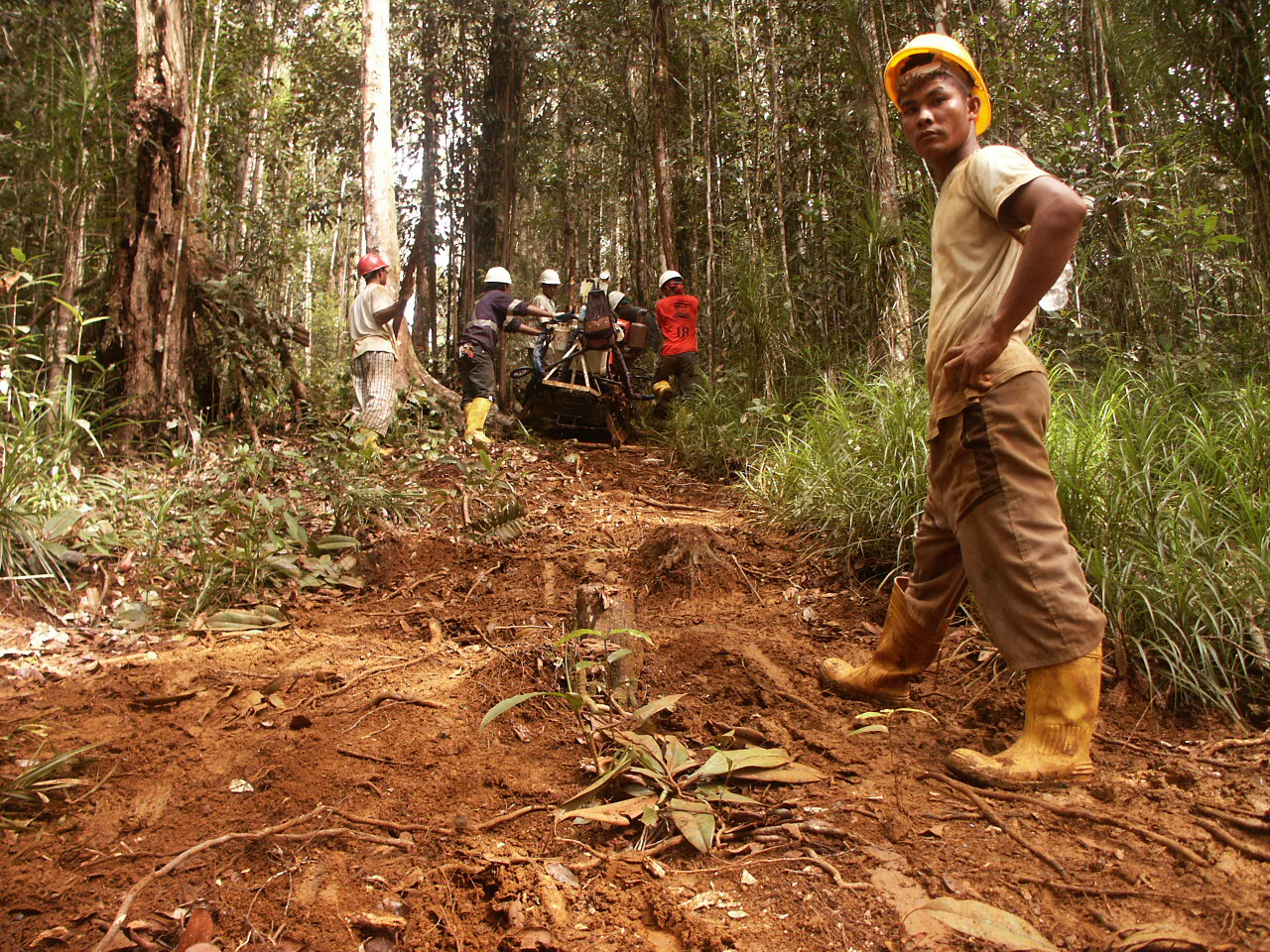 A rig crew on Halhamera island, digging for minerals.